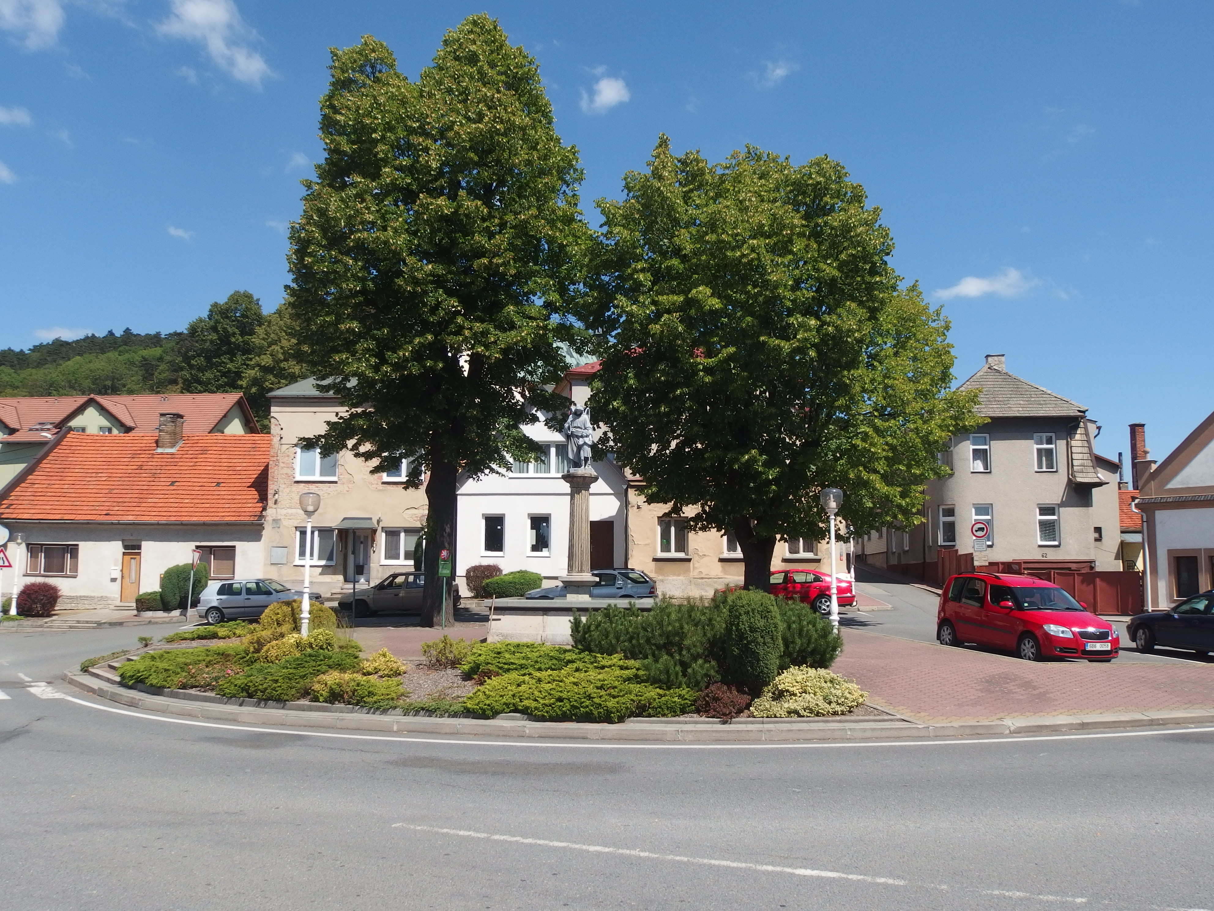 Starý Jičín, Nový Jičín District, Czech Republic.